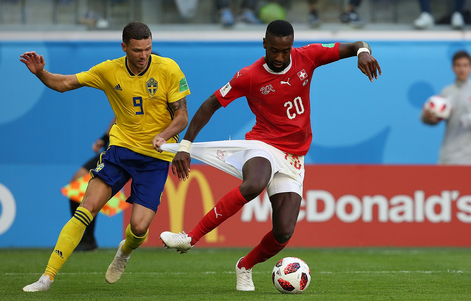 2018 FIFA World Cup Match 55, Sweden v Switzerland